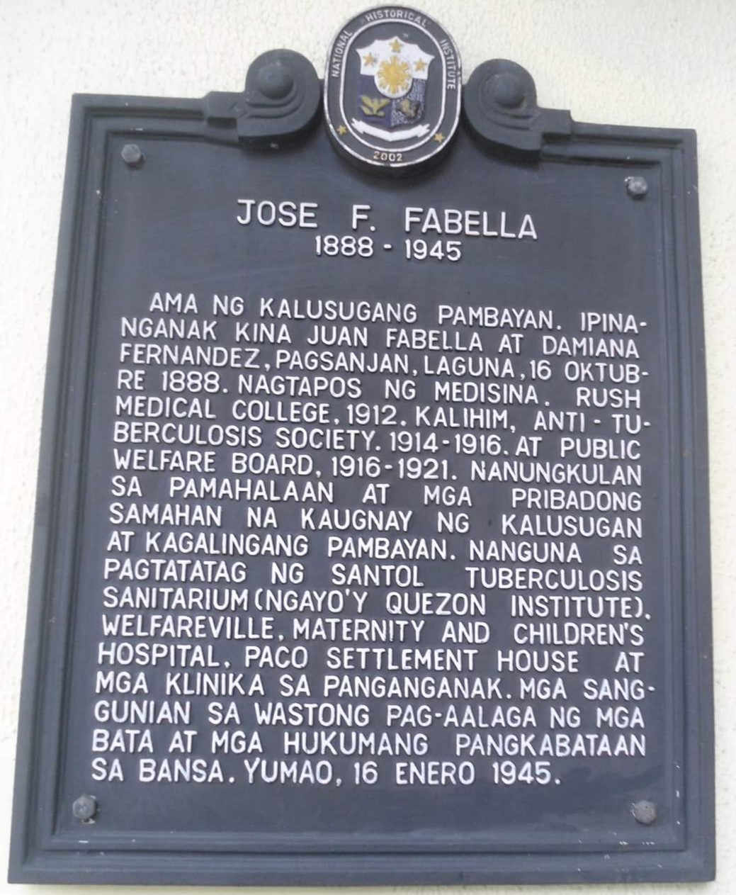 Dr. Jose Fabella marker